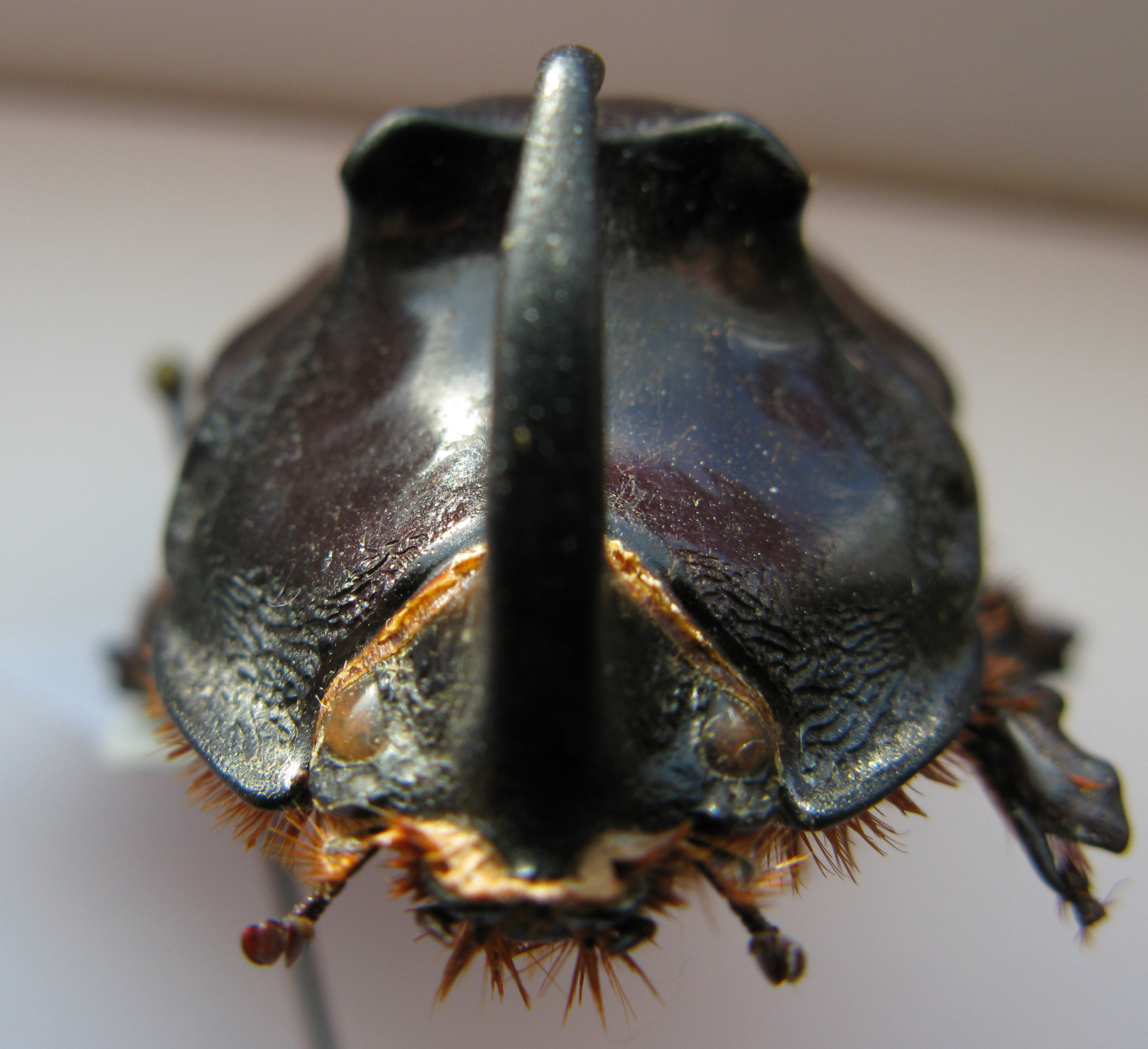 Oryctes nasicornis